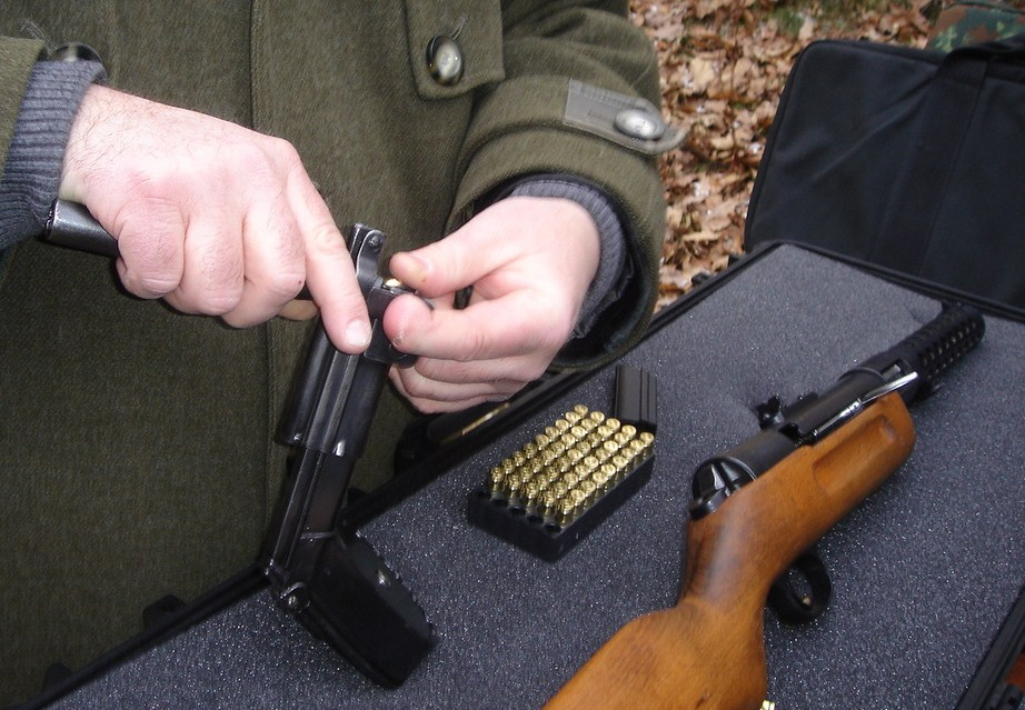 Bergmann MP18.1 Loading a Trommel Magazin 08 with the appropriate charging device DCB